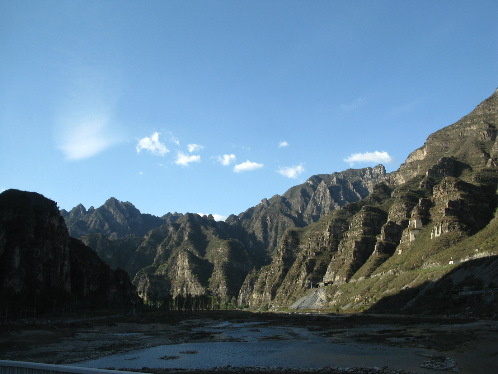 View from the road